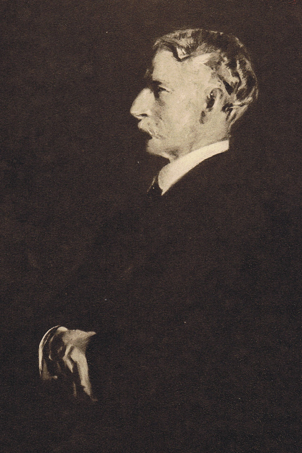 Portrait of Mr. Edward H. Coates, former president of the Pennsylvania Academy of the Fine Arts, as painted by J. McLure Hamilton in Murestead, Grove End Road, London, N. W., England. The portrait was likely done during the summer of 1912, when Mr. and Mrs. Coates were guests of Mr. Hamilton at his home in Murestead, and portraits of Mr. Coates as well as his wife were painted (see "Edward H. Coates" from Mr. Hamilton's book, Men I Have Painted)